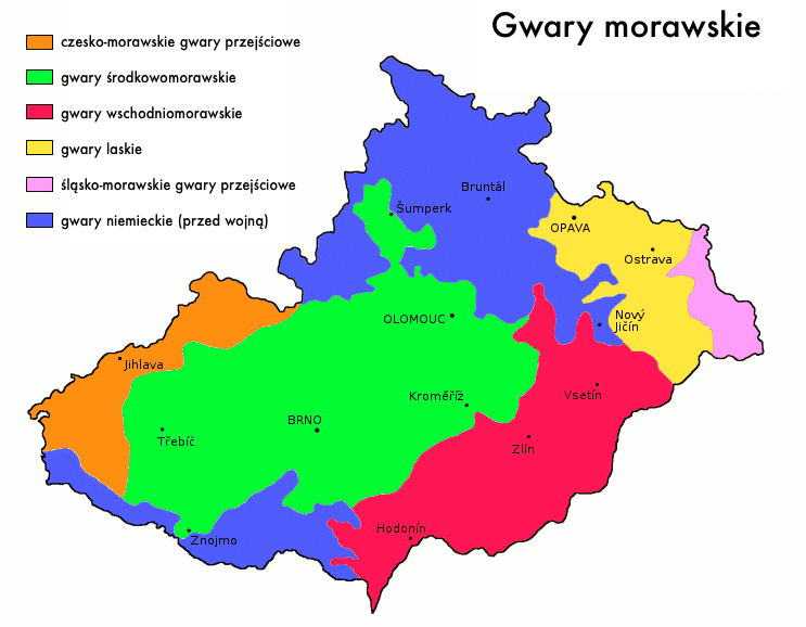 Moravian dialects of the czech language